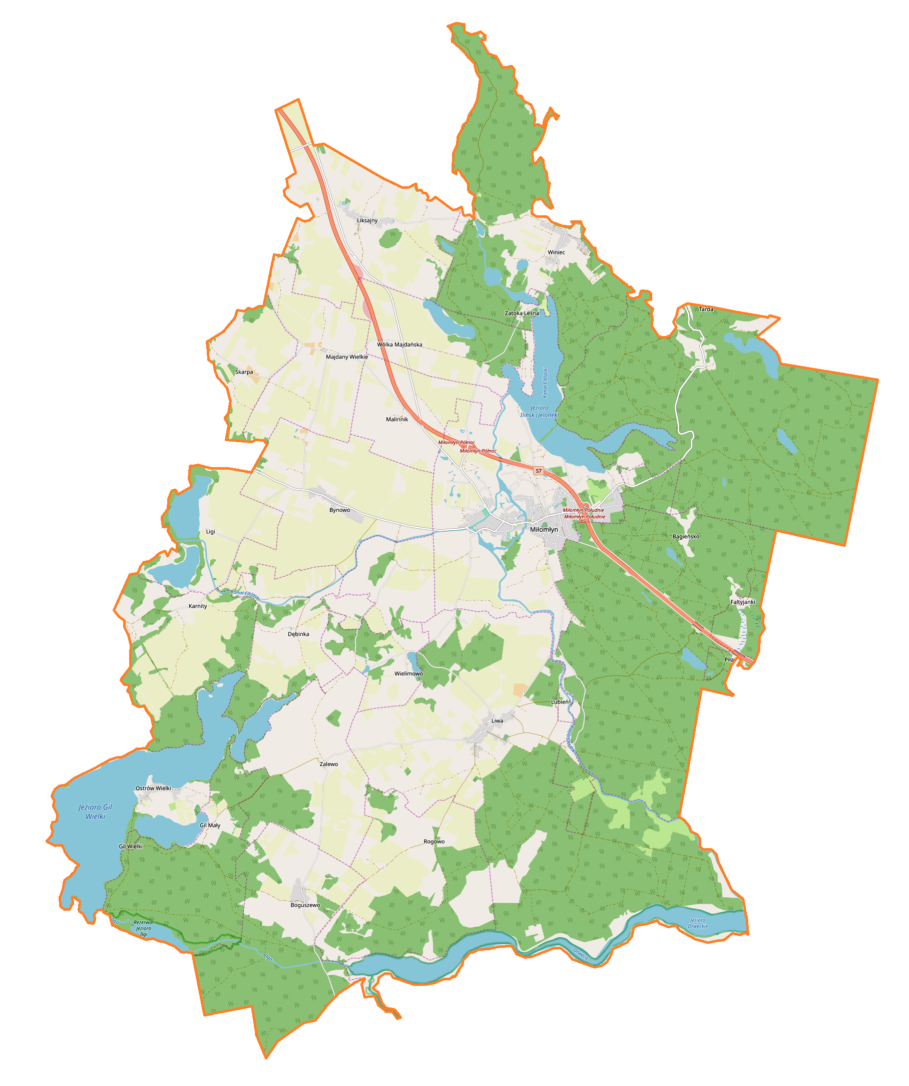 Location map